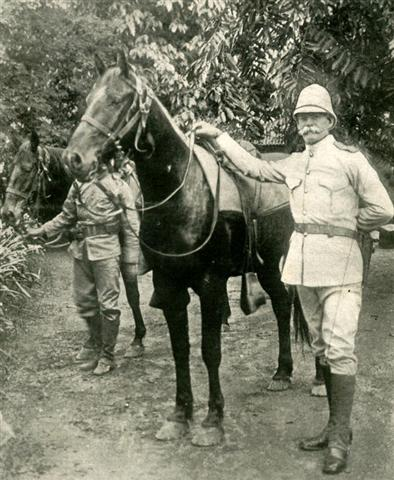 Photo of Maj. General Lawton in the Philippines